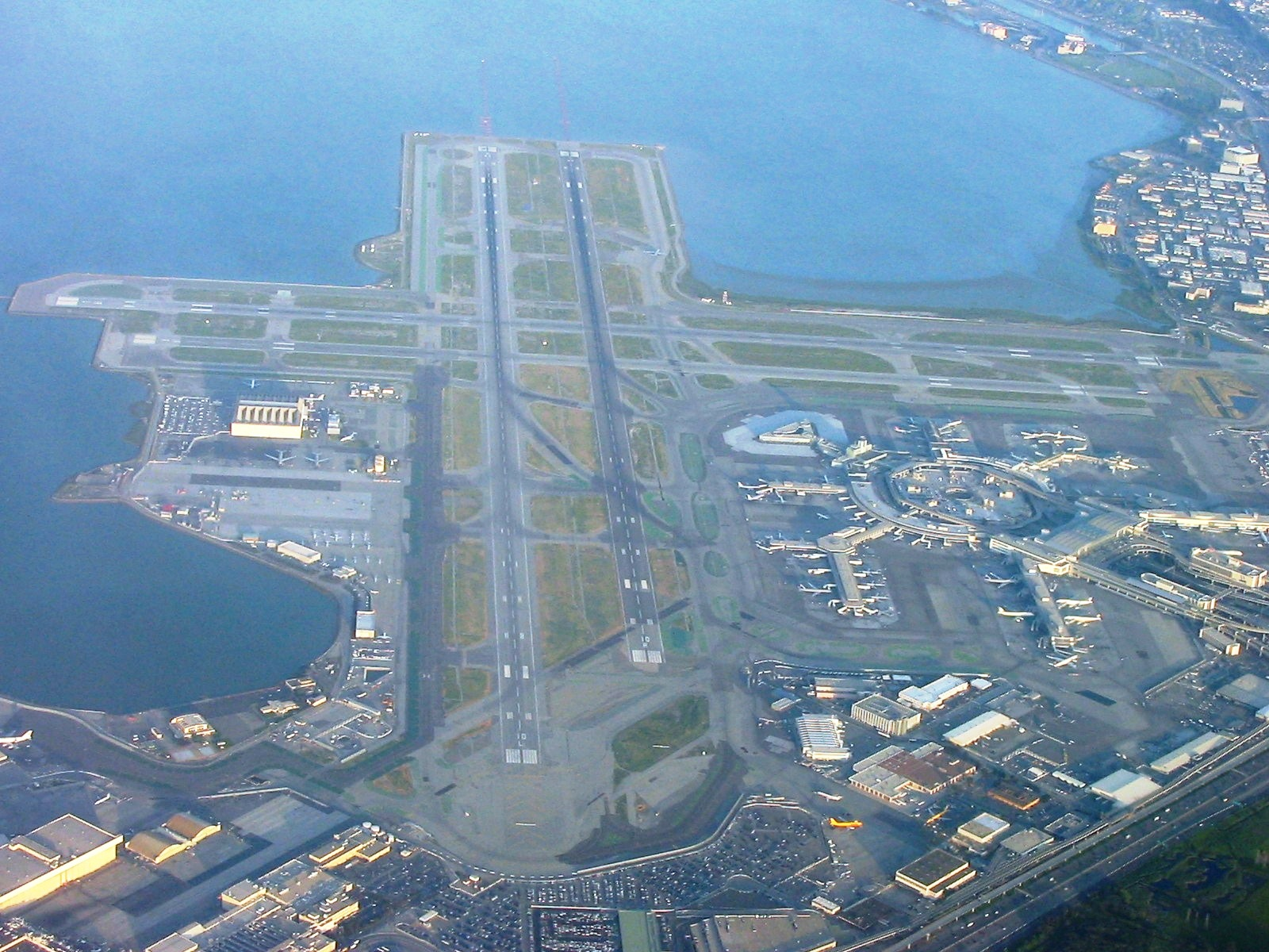 San Francisco Airport seen from the west in late afternoon.